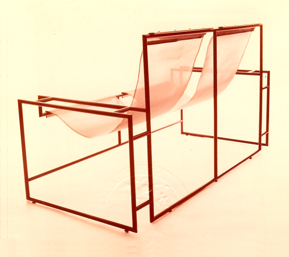 The first chair designed by David Shaw Nicholls. It is called the ASFLEXI 2-seater and is an essential, minimalist, designed structure in tubular metal and fine stainless steel industrial wire cloth as used in the filtration systems for oil extraction from the sea well.